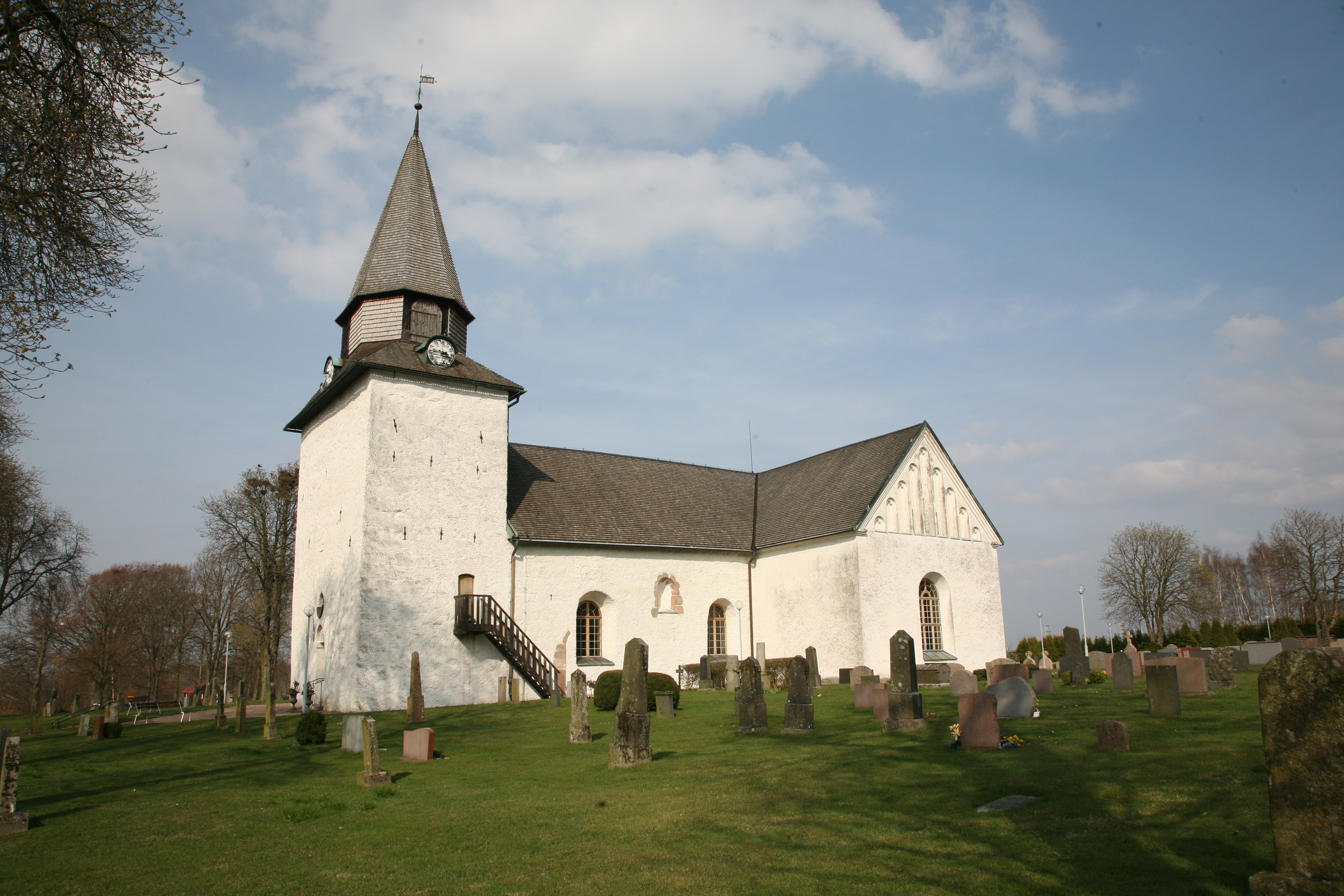 Östra Karup church in Skåne, Sweden